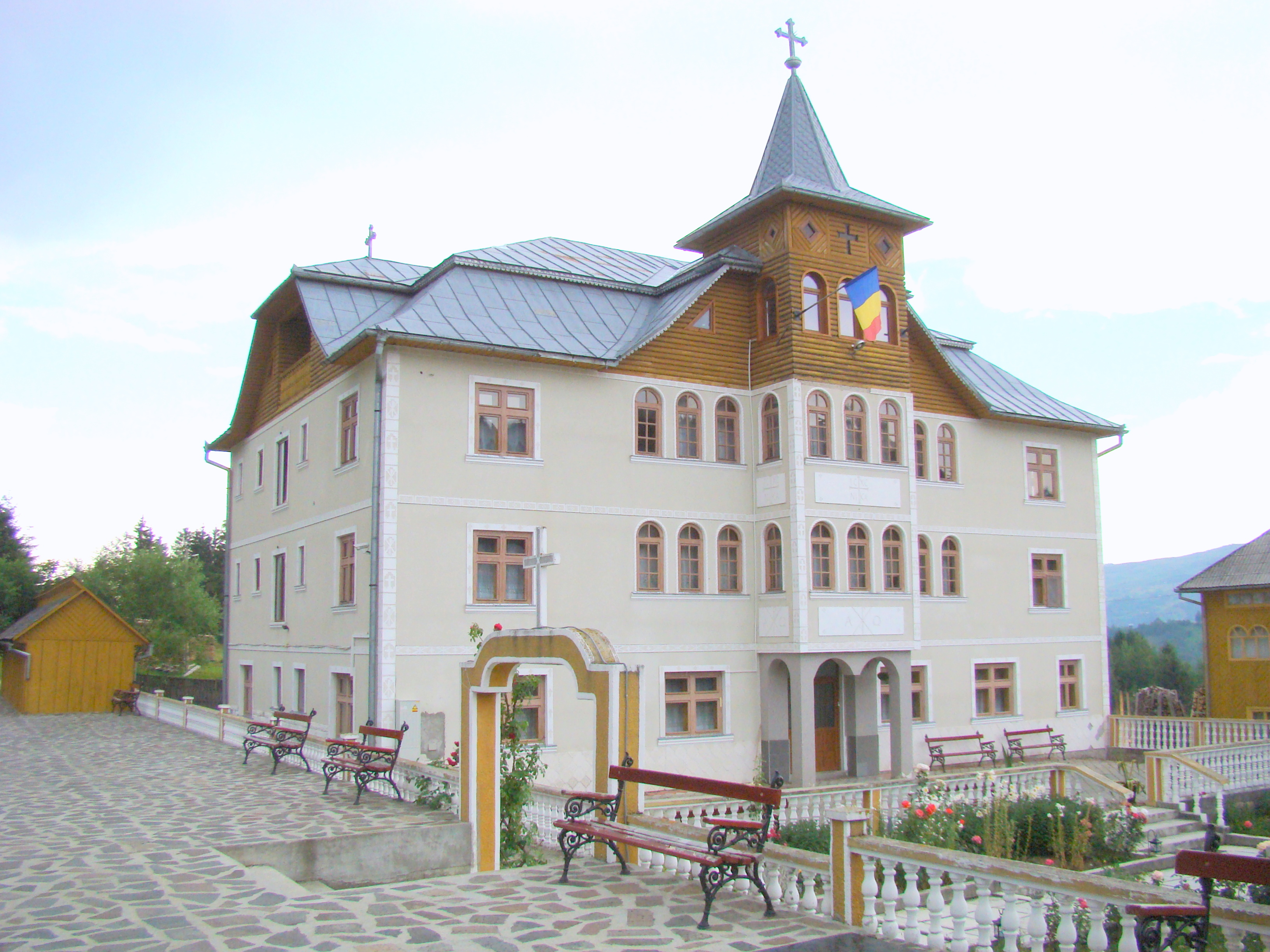 Moisei Monastery, Maramureș county, Romania